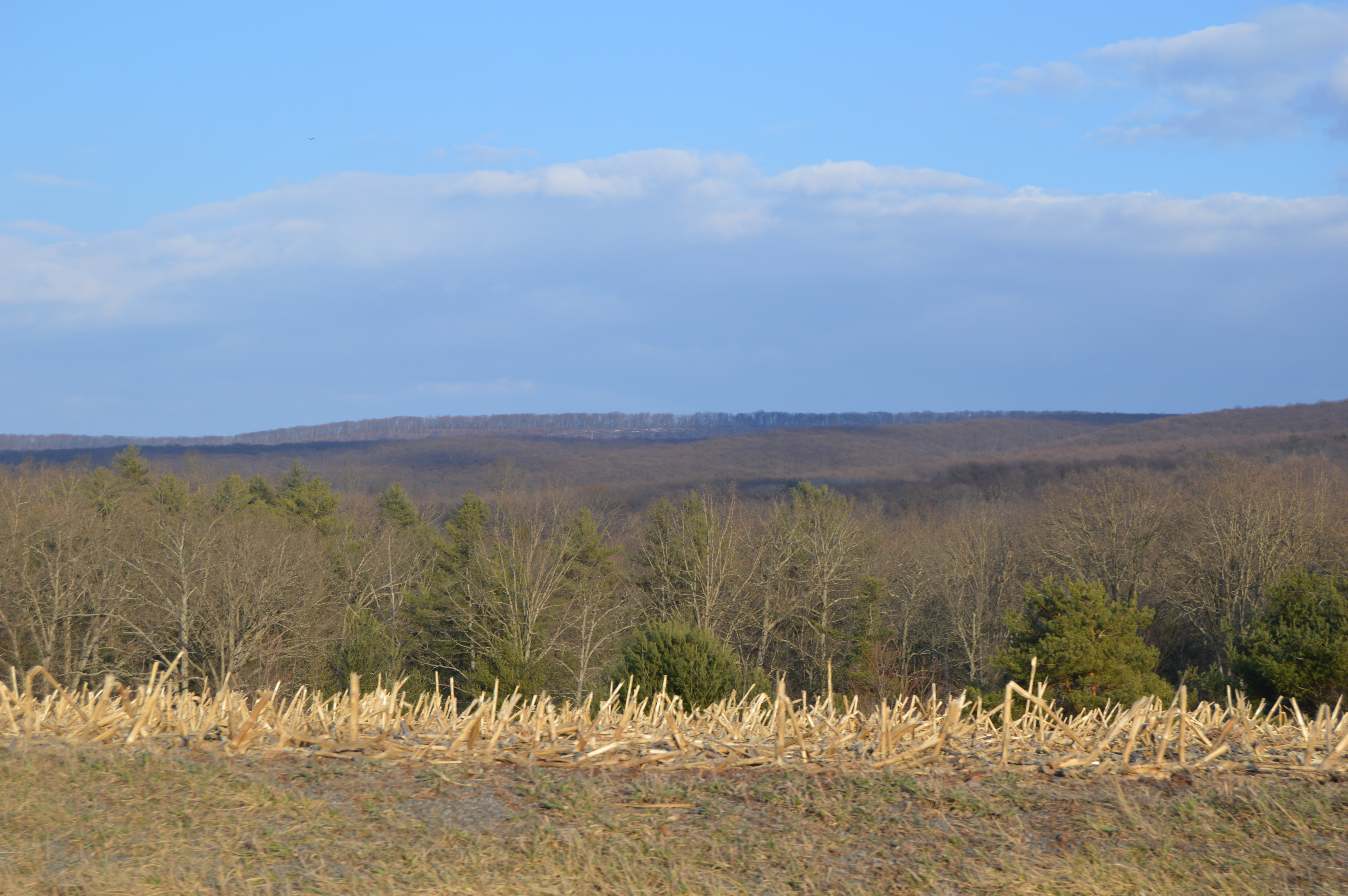 A stubble field and forest in Wells Township, Fulton County, Pennsylvania, United States. Photo looks east from Pennsylvania Route 915 northeast of Valley-Hi.